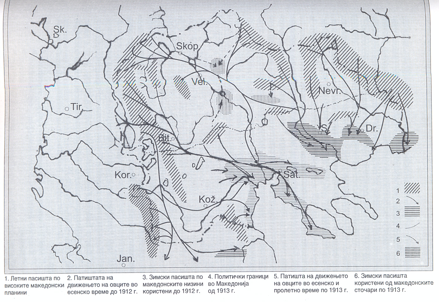 Nomadic stock breeding in Macedonia in XIX century